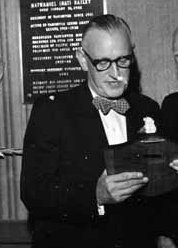 Nat Bailey and Bob Brown at BC Sports Hall of Fame VPL Accession Number: 69256 Date: 1961 Photographer / Studio: Province Newspaper Topic: Sports Sports - Awards Baseball Baseball players Businessmen Location: British Columbia - Vancouver - Hastings-Sunrise - Hastings Community Park Copyright Restrictions: Public Domain